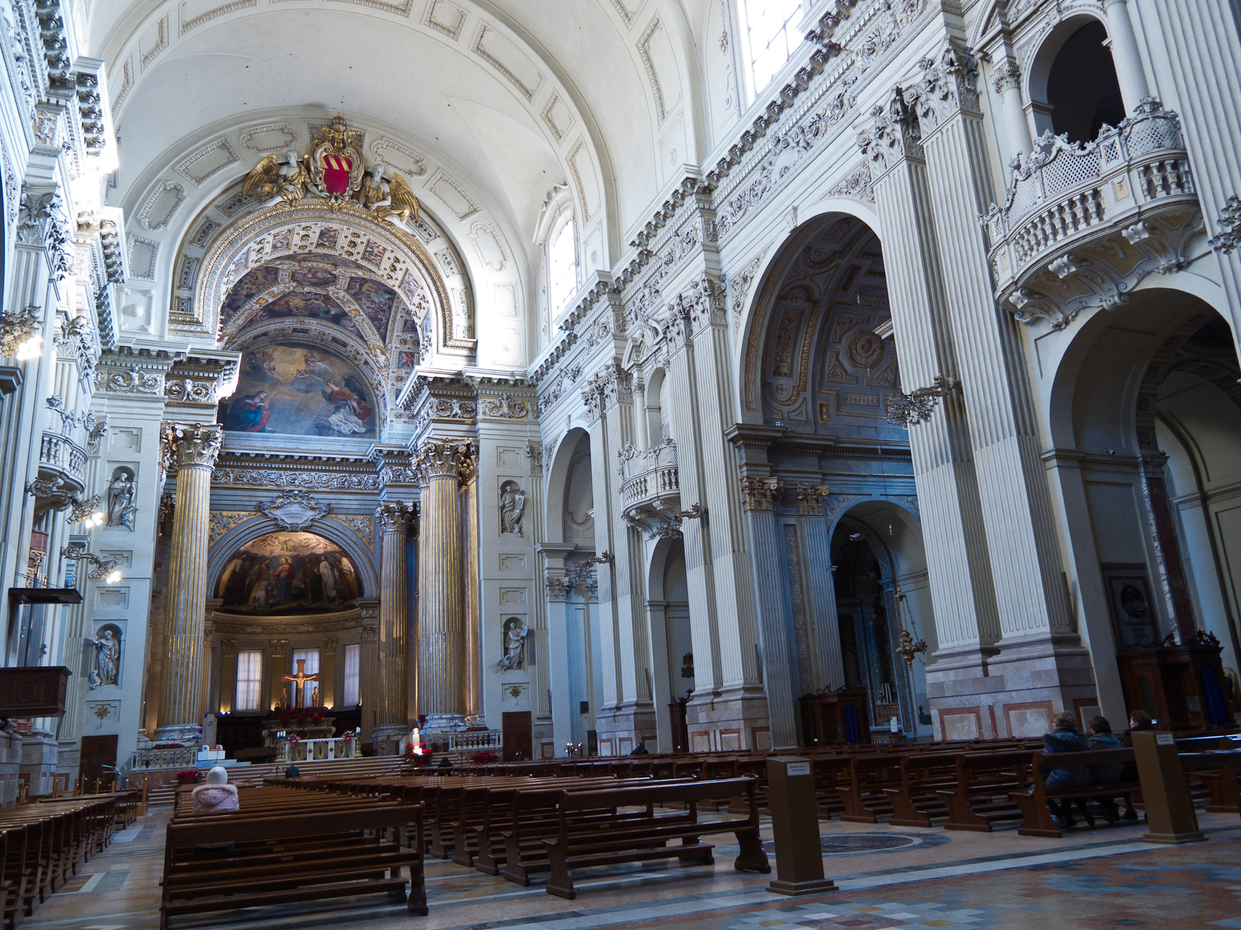 Bologna, San Pietro: Interior View